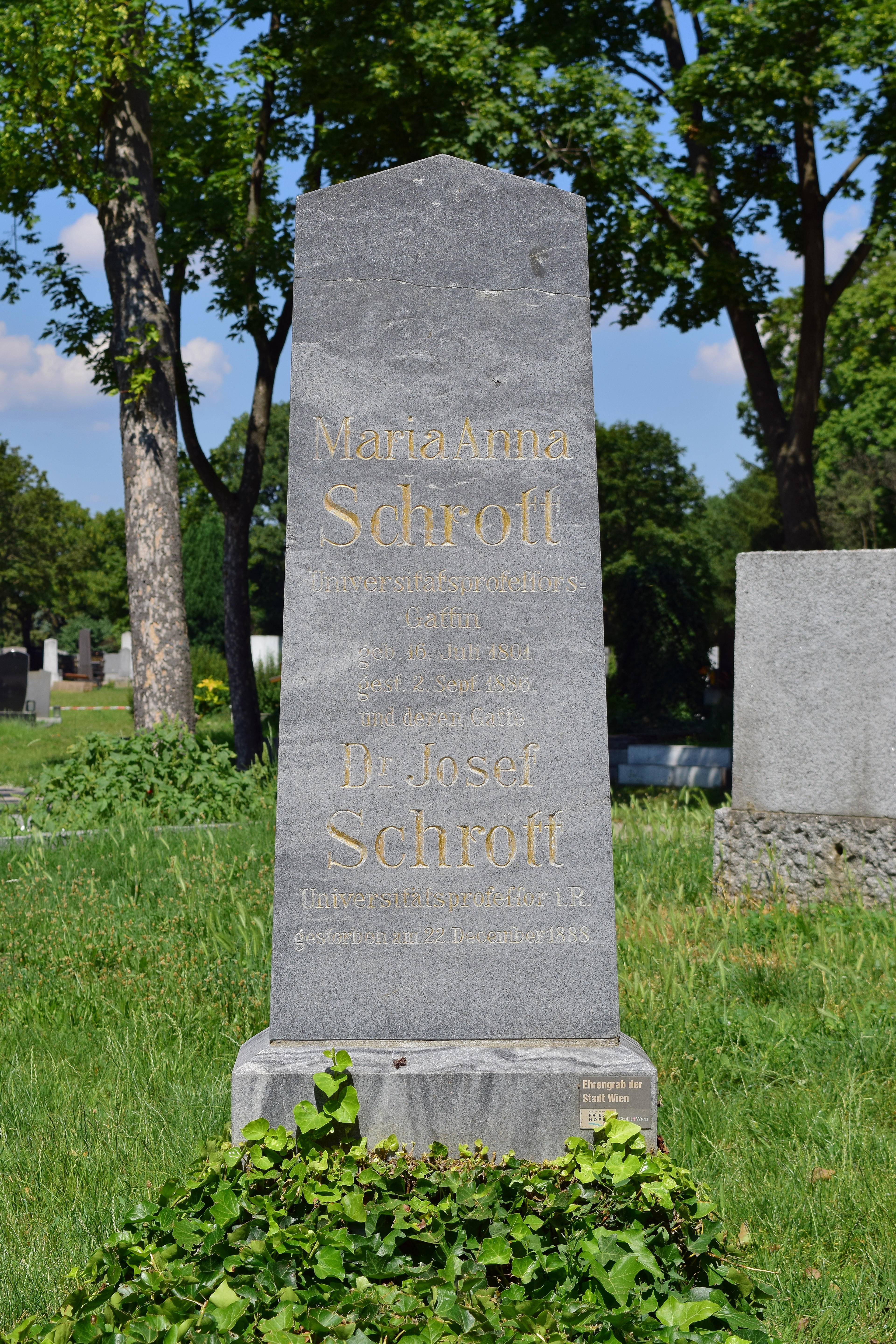 Grave of honor of Josef Schrott at the Wiener Zentralfriedhof